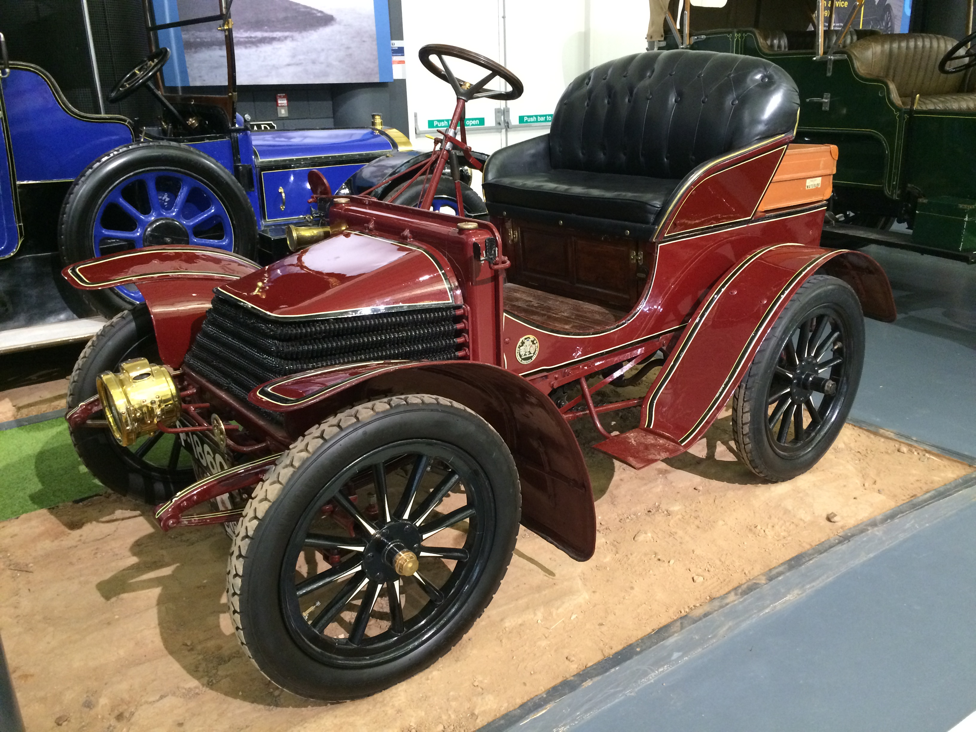 1904 Wolseley 6 hp British Motor Museum 09-2016